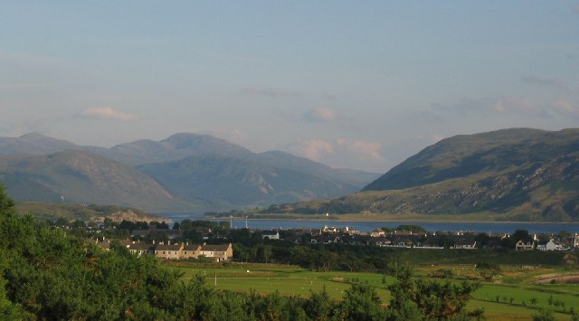 Ullapool from Morefield. A long brae leads north out of the town. Looking back at Ullapool and Loch Broom.